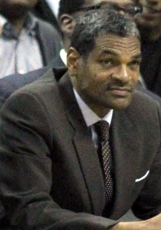 Cropped for Maurice Cheeks, Wizards v/s Thunder 03/14/11